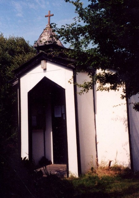 Church of Our Lady and St Anne, Widemouth Bay, Cornwall. Originally built as a private chapel for the Kingdon brothers. Re-erected on its present site in 1949. This may be the smallest church in Cornwall.